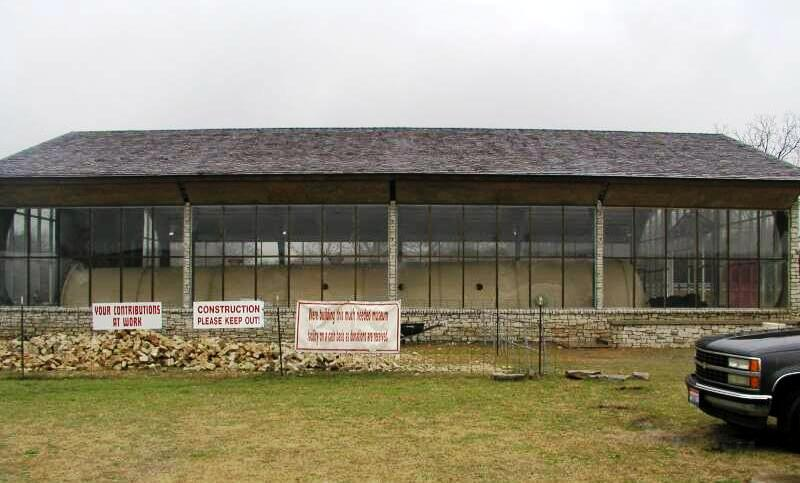 Biosphere built by Creation Evidence Museum.